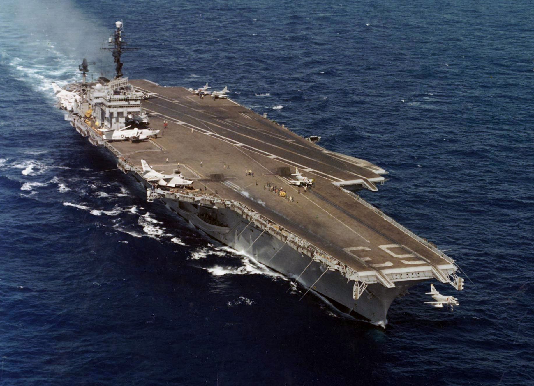 The U.S. Navy aircraft carrier USS Kitty Hawk (CVA-63) launches a Douglas A4D-2N Skyhawk, in 1962-63. The Skyhawk was assigned to Carrier Air Group 11 (CVG-11).